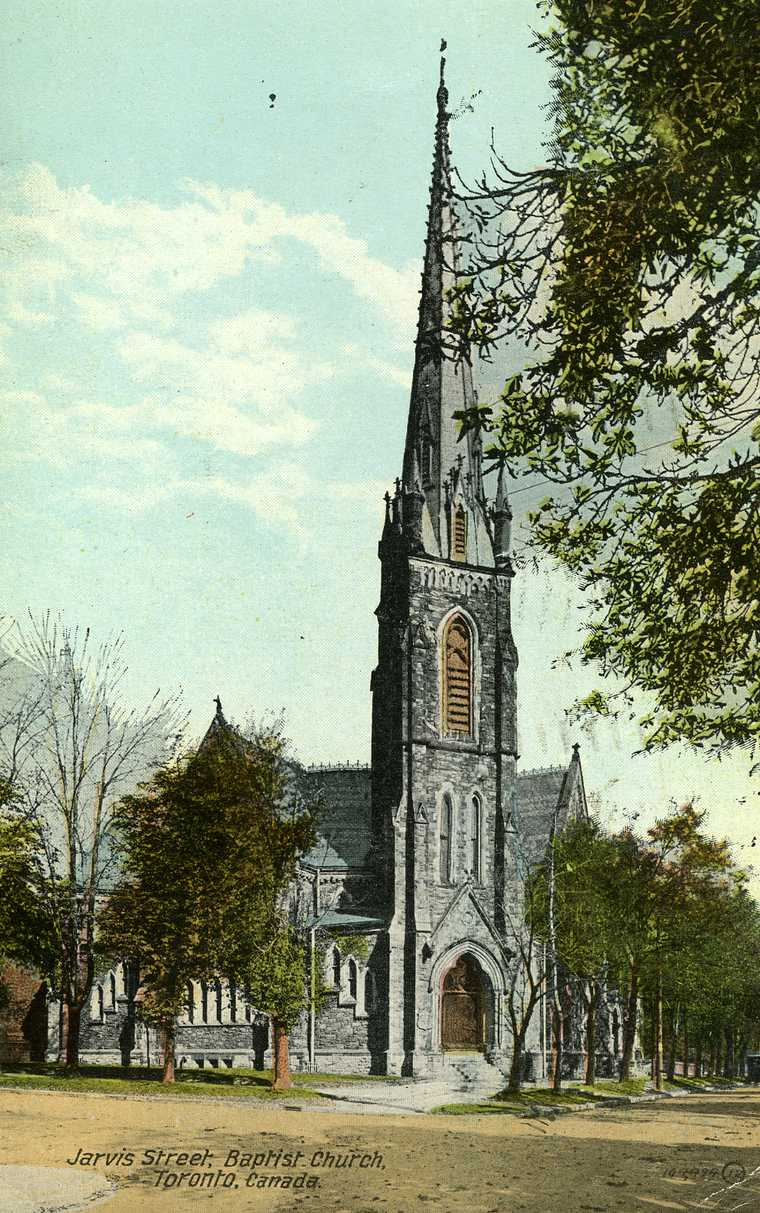 Database ID 37418 Institution Rosetown and District Archives Fonds/Collection Kunkel Collection File/Item Reference KC-56 Postcard message Am spending the day in Toronto. Everything is lovely and the goose hang high. Heard George [?] out. [?] [?] [?] of M.J. Ha Ha from Clarence Scope and content Coloured image of a church with steeple. Trees in the background and street in the foreground. Physical description/extent 1 postcard; 8.75x13.75cm Date postcard sent 26 October 1917 Date produced [ca. 1917] Date Range(s) 1910-1919 Publisher Valentine & Sons Publishing Co., Ltd. Copyright holder Public domain Subjects Buildings and Architecture -- Churches, Synagogues, Places of Worship Language of postcard text English Language of card English Postcard style white border Postcard media chromolithography Place - image Toronto, Ontario, Canada Place - destination Rosetown, Saskatchewan, Canada Permanent Link